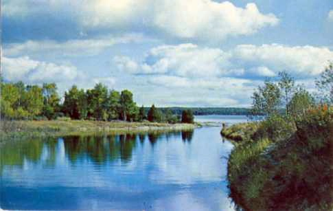 Old Postcard.